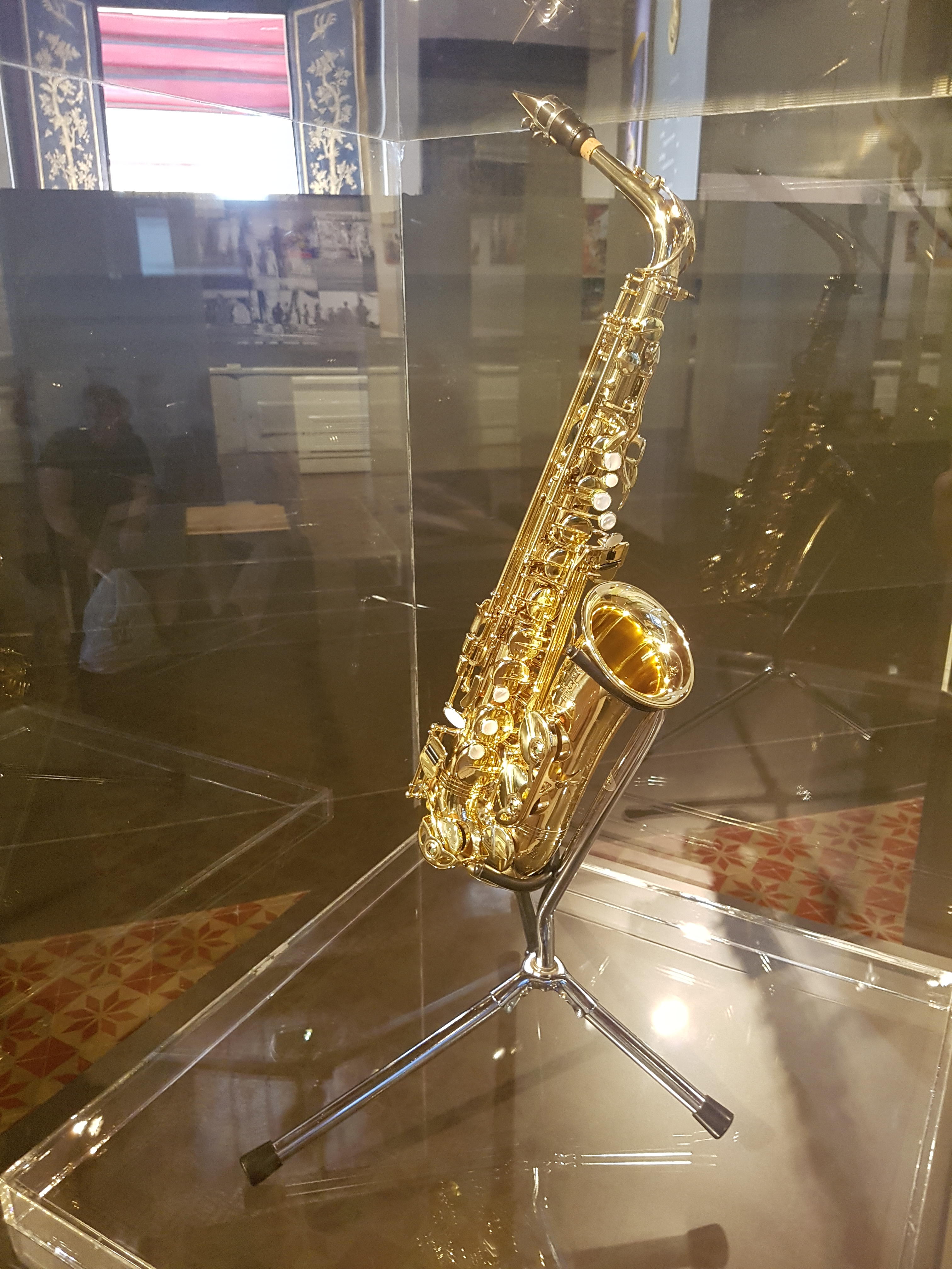 Place: Itsara Winitchai Hall, Bangkok National Museum, Bangkok, Thailand. Item: Saxophone of King Bhumibol Adulyadej.